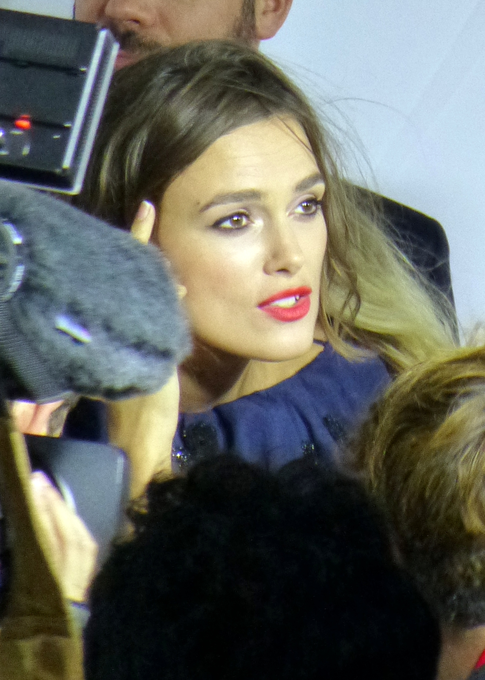 Keira Knightley at the premiere of Laggies, Toronto Film Festival 2014